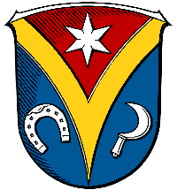 Coat of Arms of Seeheim-Jugenheim